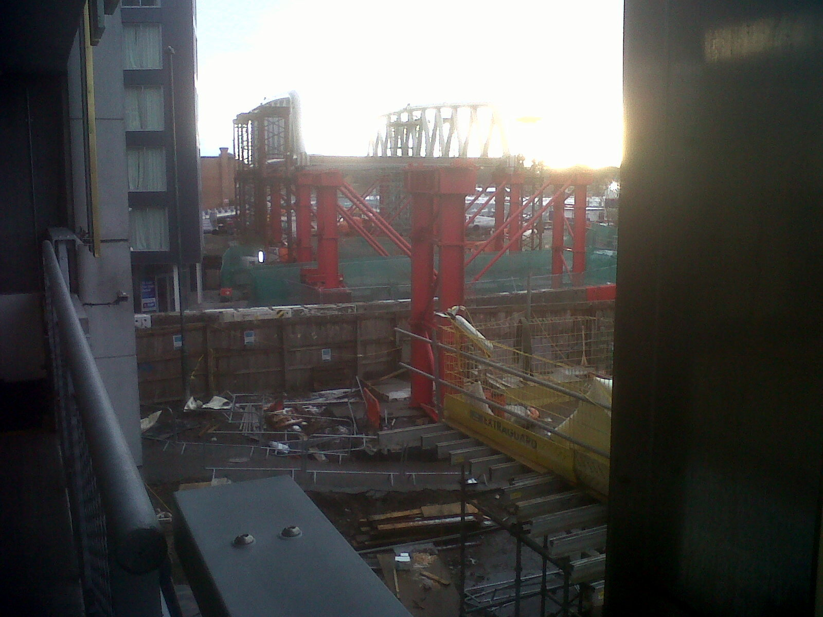 Constructed Phase 2 Nottingham tram bridge (grey) at railway station awaiting sliding into place onto (red) supports. Image taken from 2nd floor of car park.